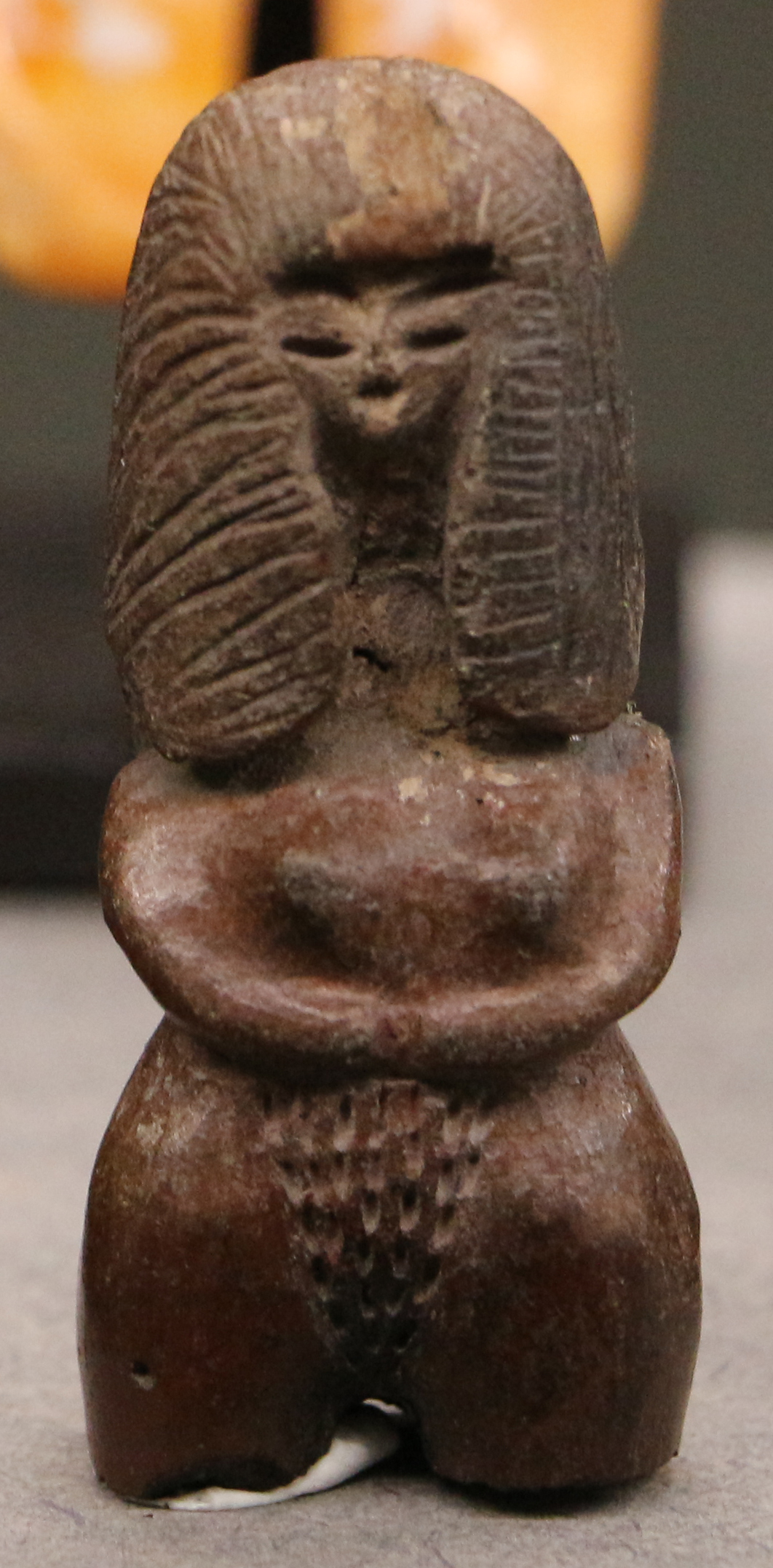 Il mondo che non c’era (2016 exhibition)